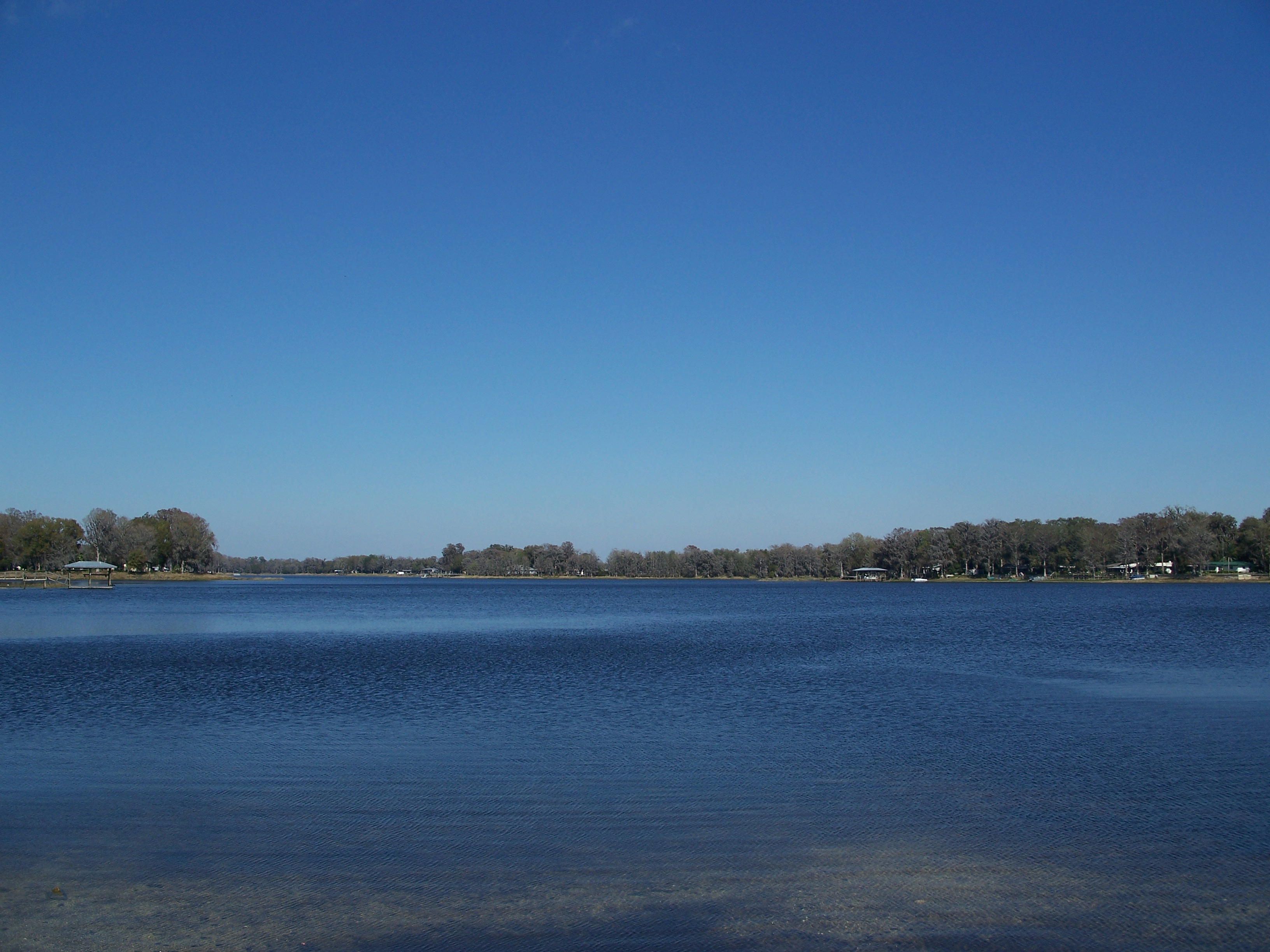 Lake Tsala Apopka, view from the north end of the Floral City Historic District, in Floral City, Florida